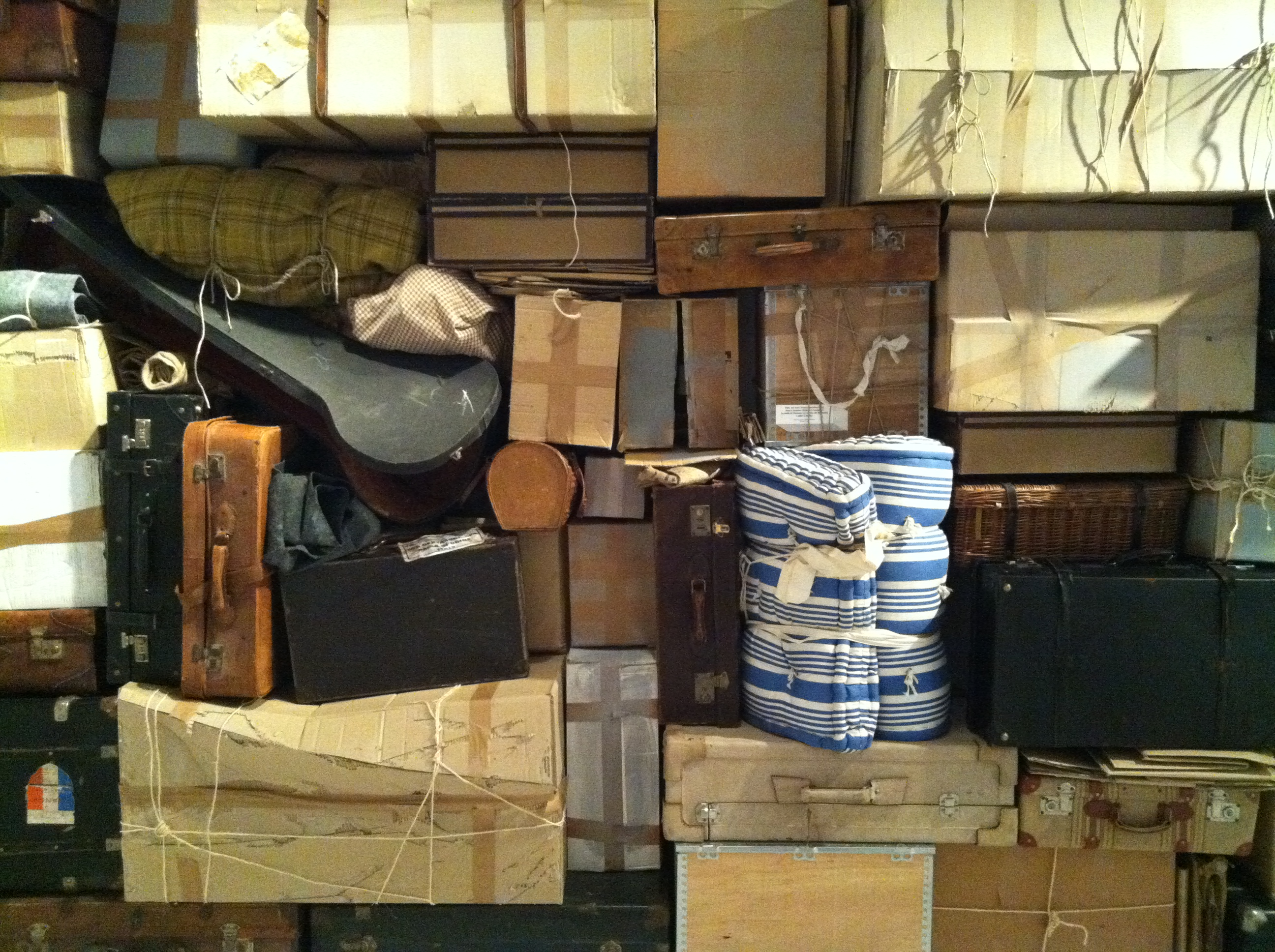 La Trieste de Magris. Exhibit about the Trieste of Claudio Magris, shown at CCCB during 2011